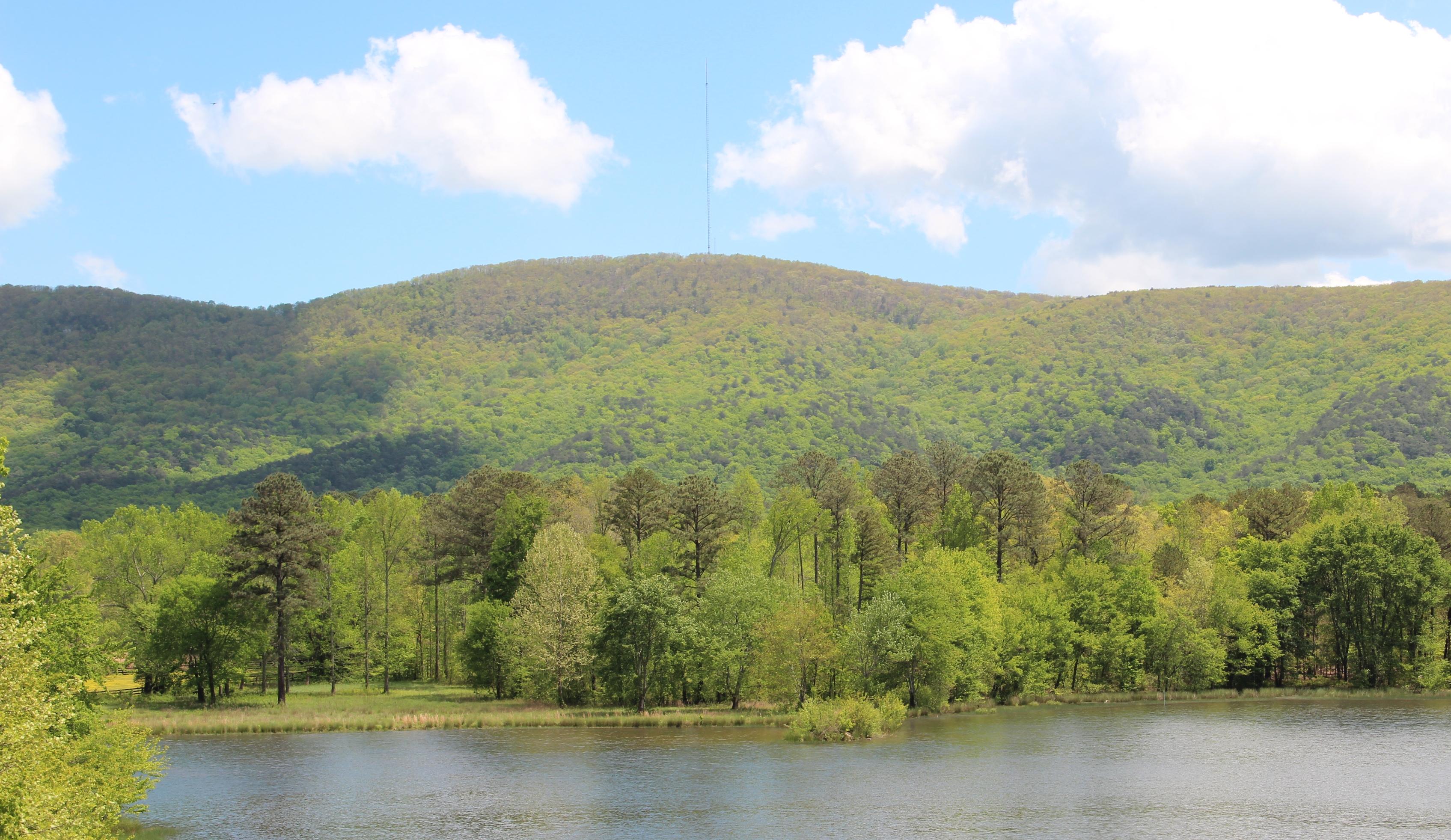 Bear Mountain, Cherokee County, Georgia, viewed from Neel Lake inside the Pine Log Wildlife Management Area